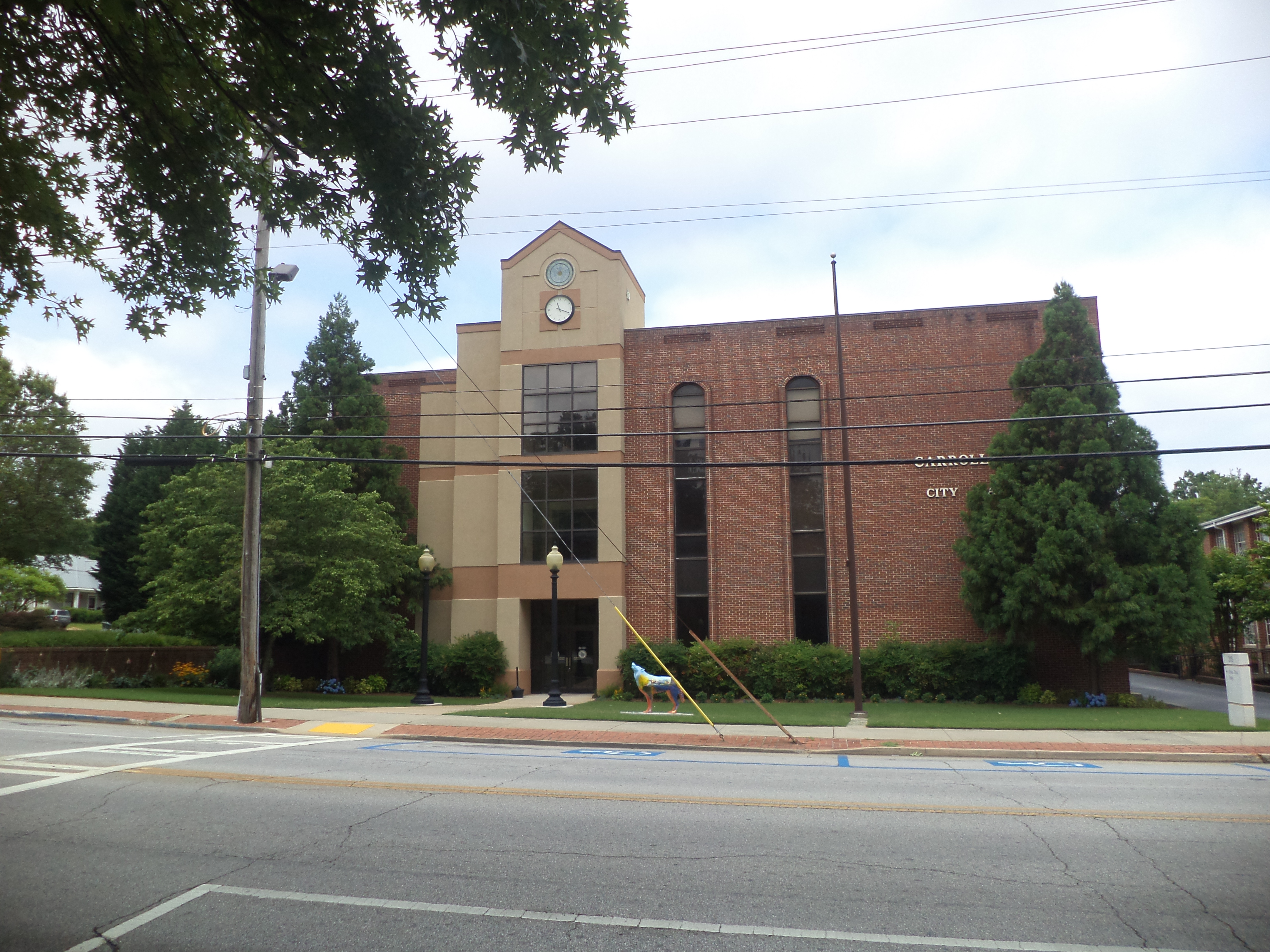 Carrollton City Hall, Bradley St, Carrollton, Carroll County, Georgia